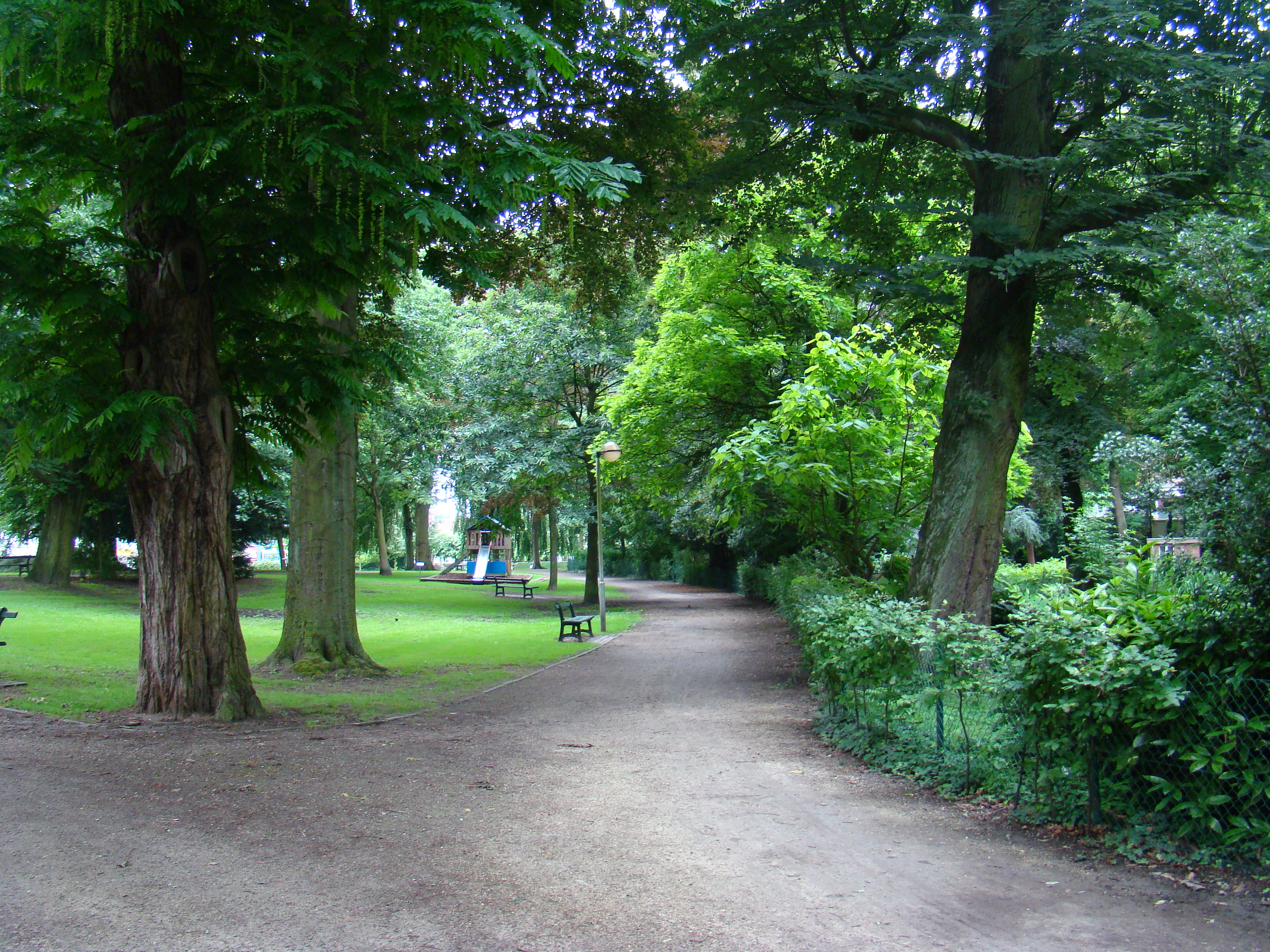 Astridpark , Kortrijk (West Flanders, Belgium)